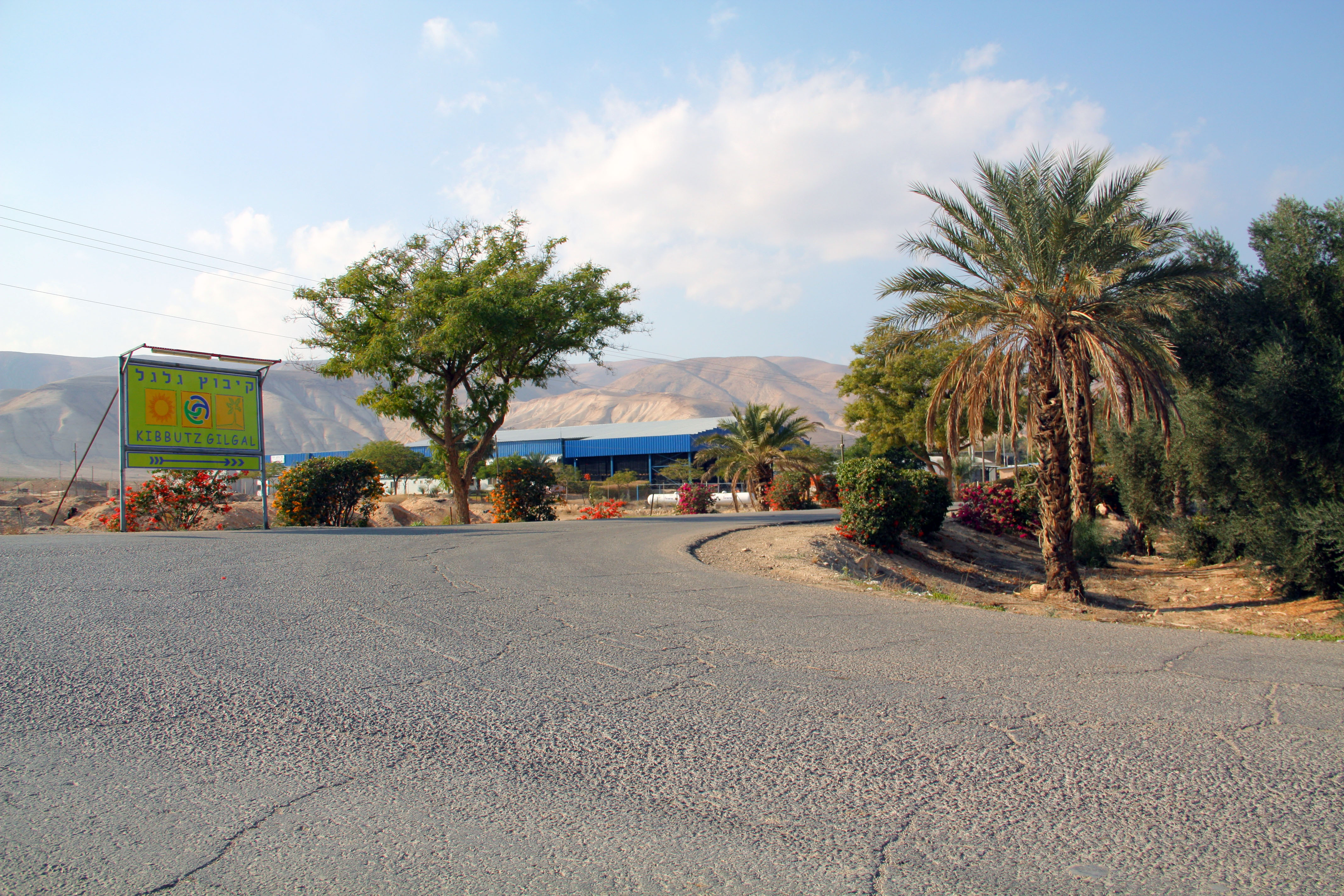 Entrance to Gilgal